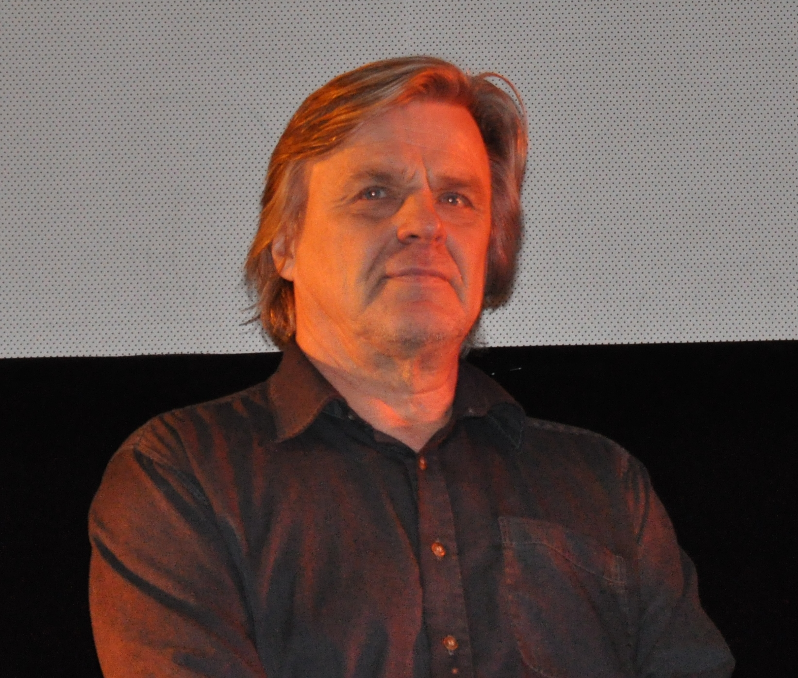 Finnish film director Matti Ijäs at the Festival of Finnish Cinema 2010.